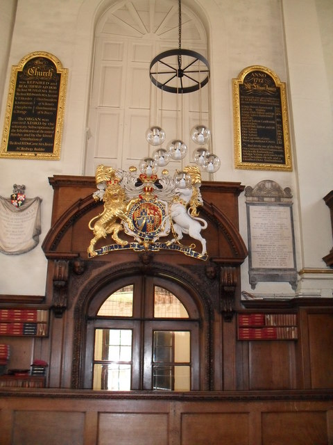 Coat of arms within St Benet Paul's Wharf